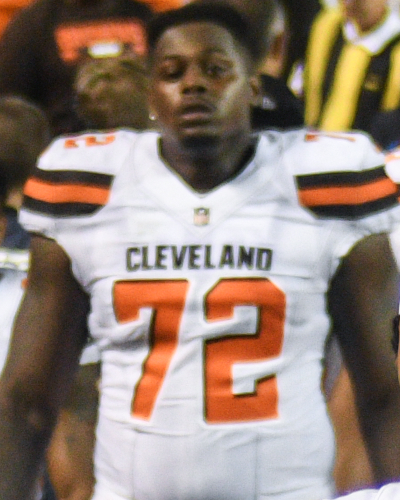 Cleveland Browns vs. New York Giants